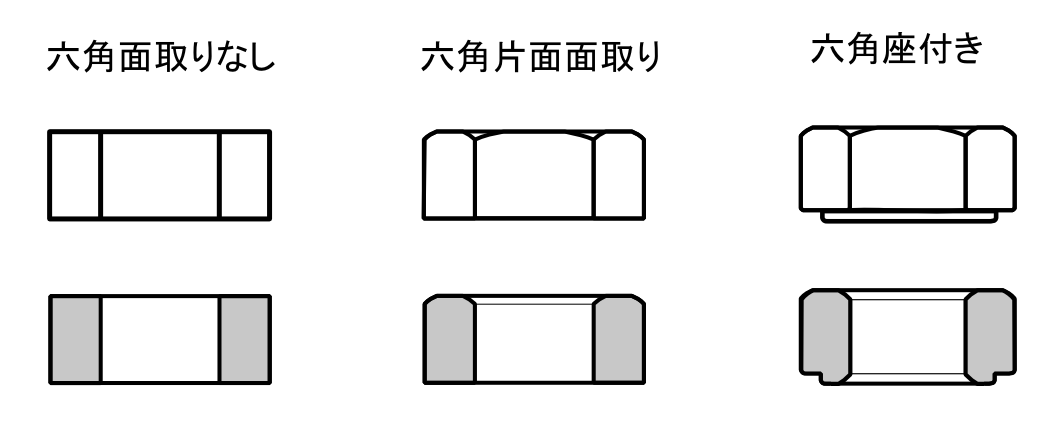 Screw (bolt) 22C-J